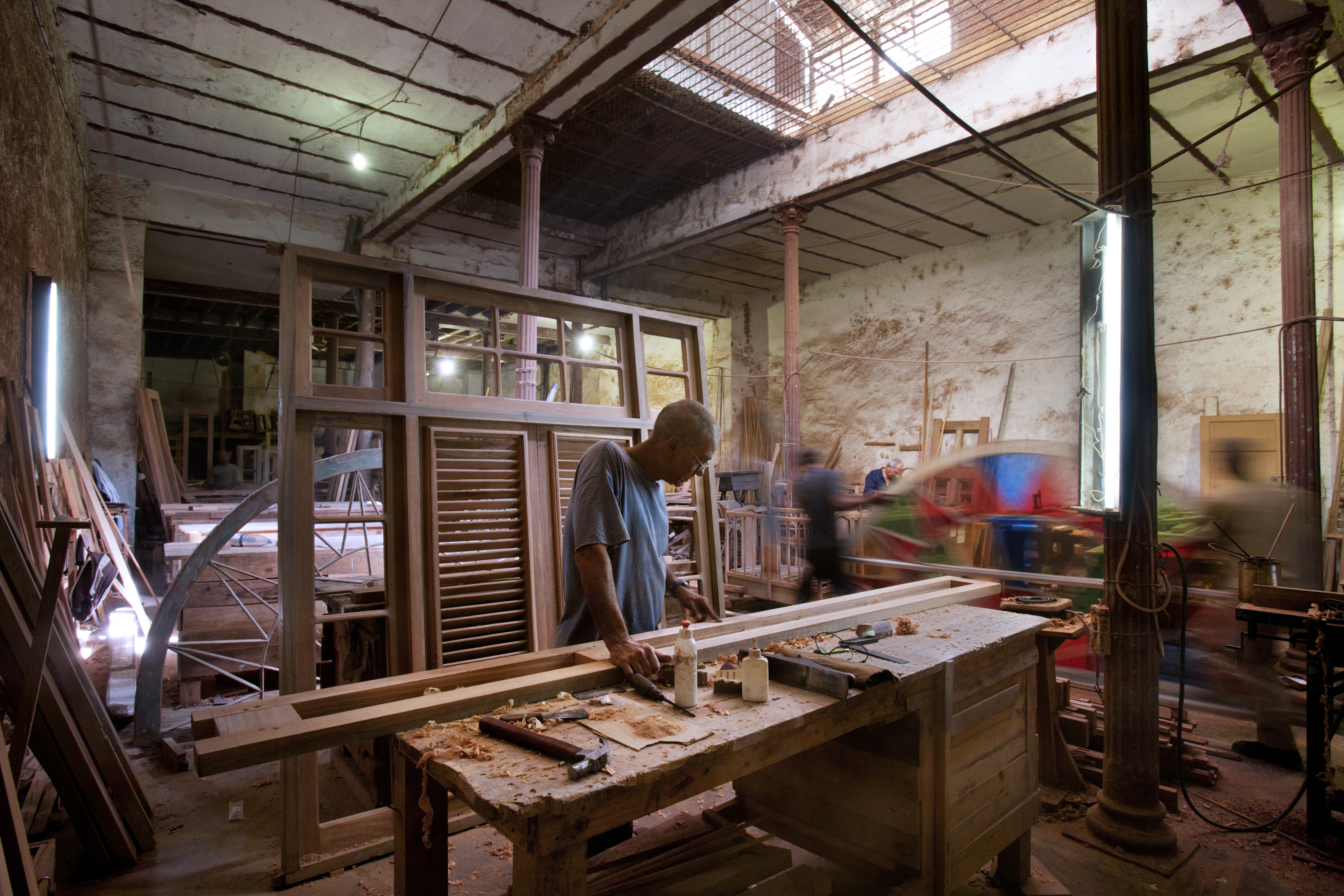 A carpentry shop. Havana (La Habana), Cuba